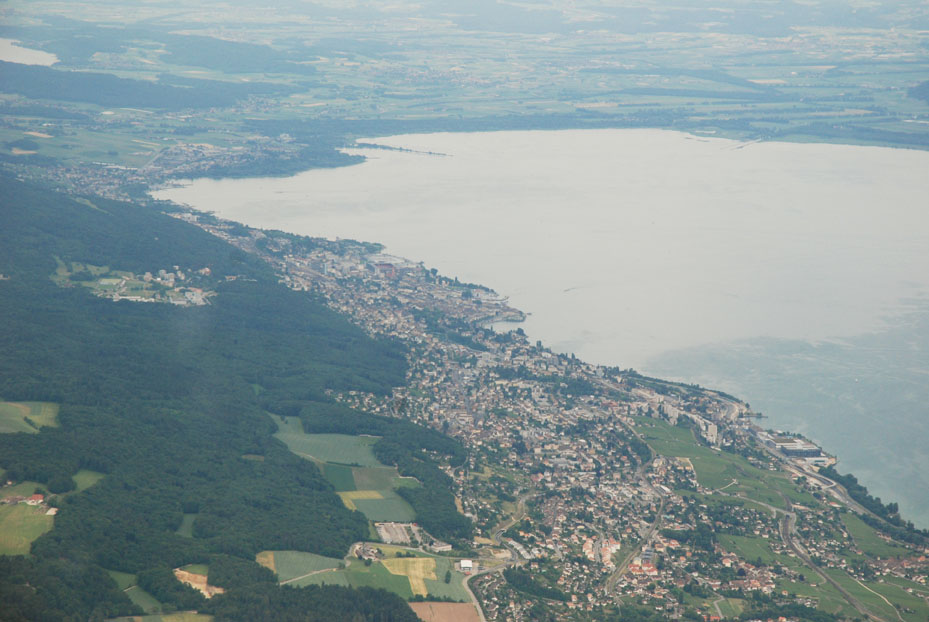 Aerial view of Neuchâtel and Lake Neuchâtel, looking to the north-east.